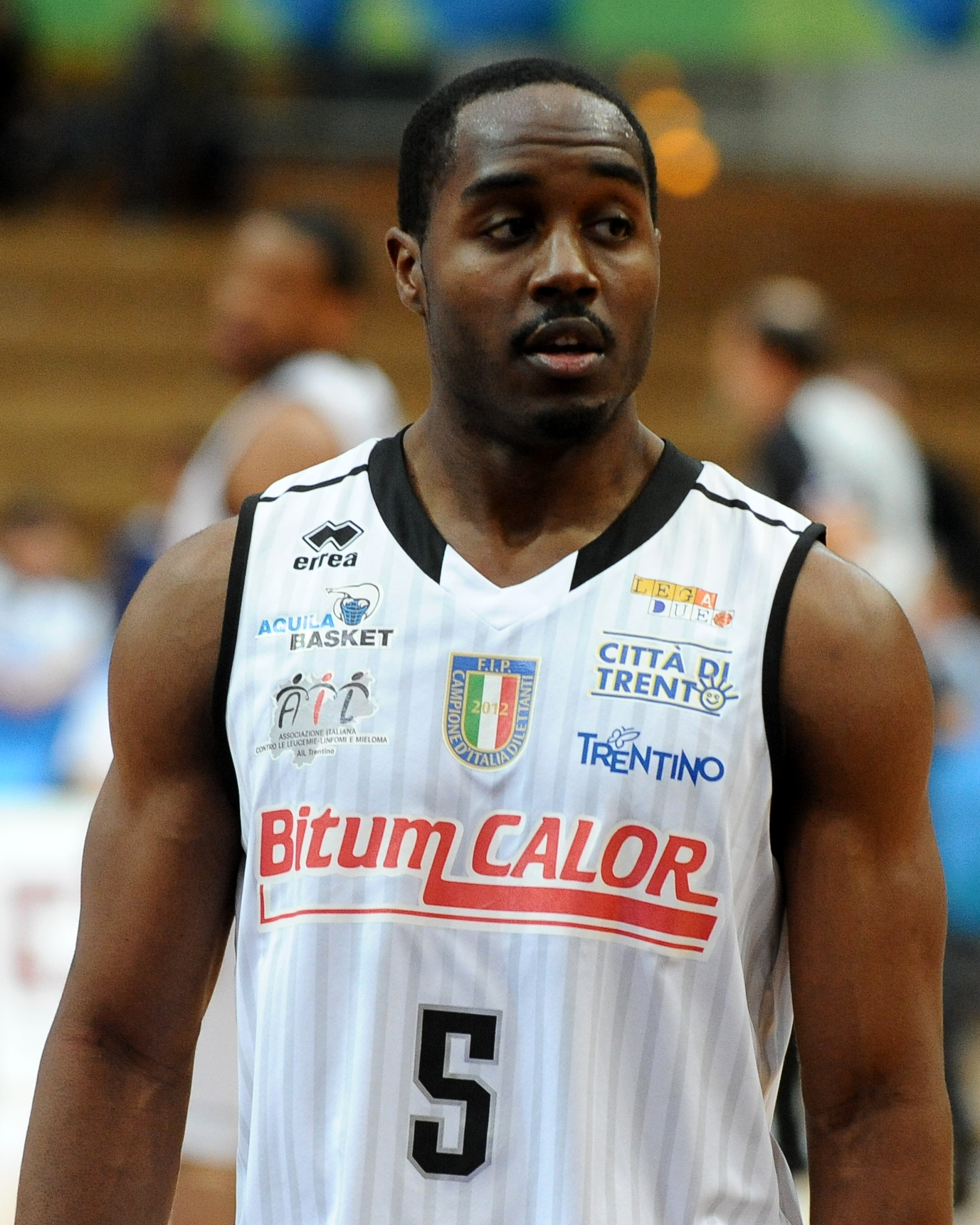 Michael Umeh with Aquila Basket Trento during a match against Aurora Basket Jesi at PalaTrento.